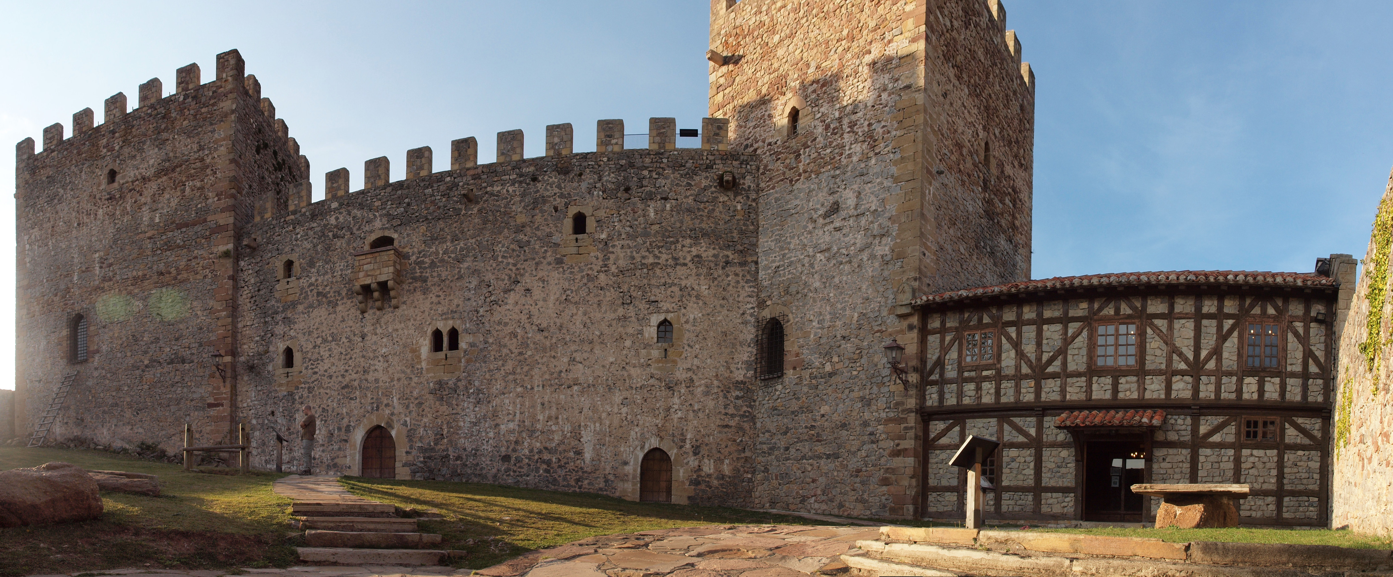 Panoramic view of the courtyard of the castle of San Vicente in the town of Argüeso (Cantabria, Spain)